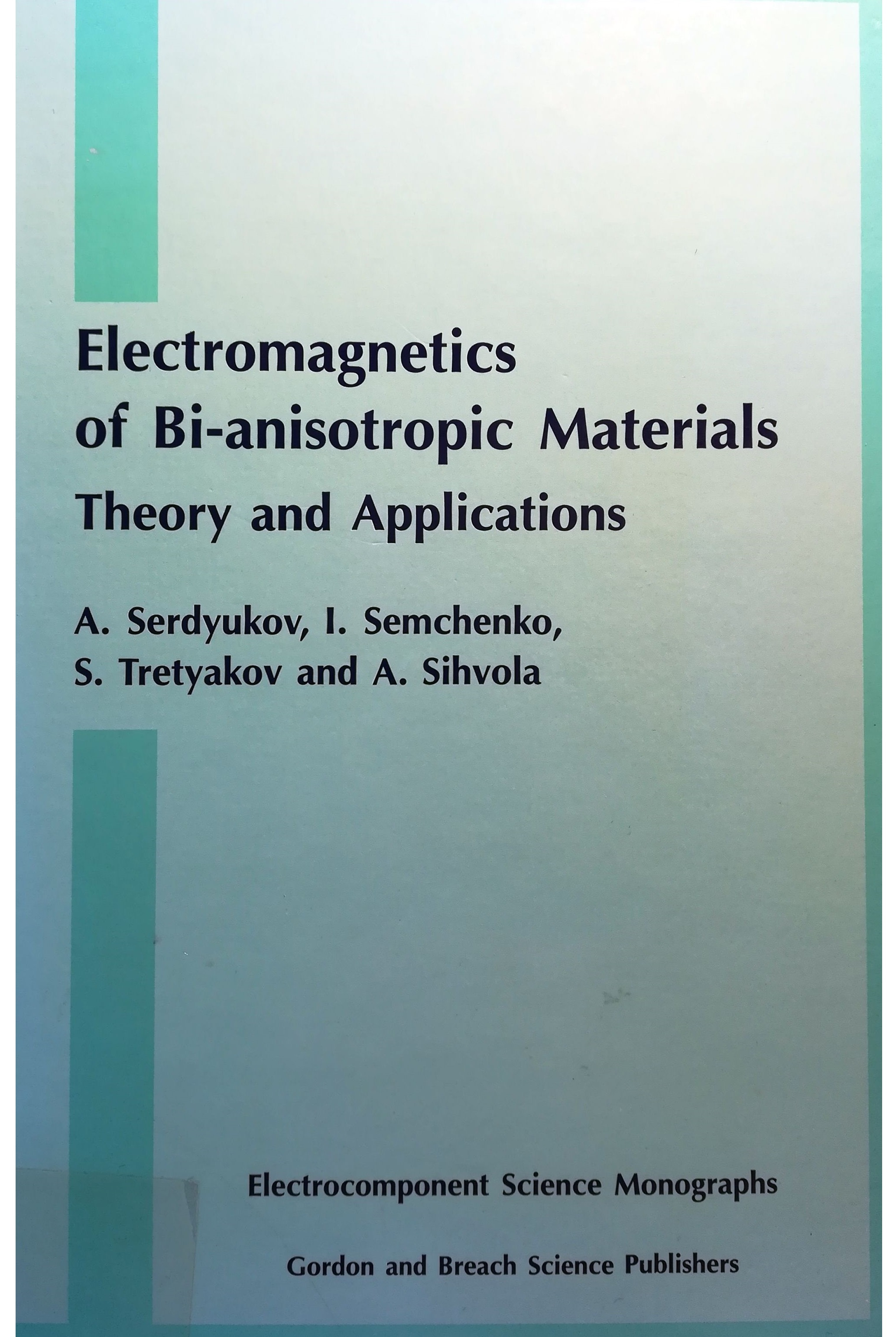 Cover of book "Electromagnetics of bi-anisotropic materials: Theory and applications"